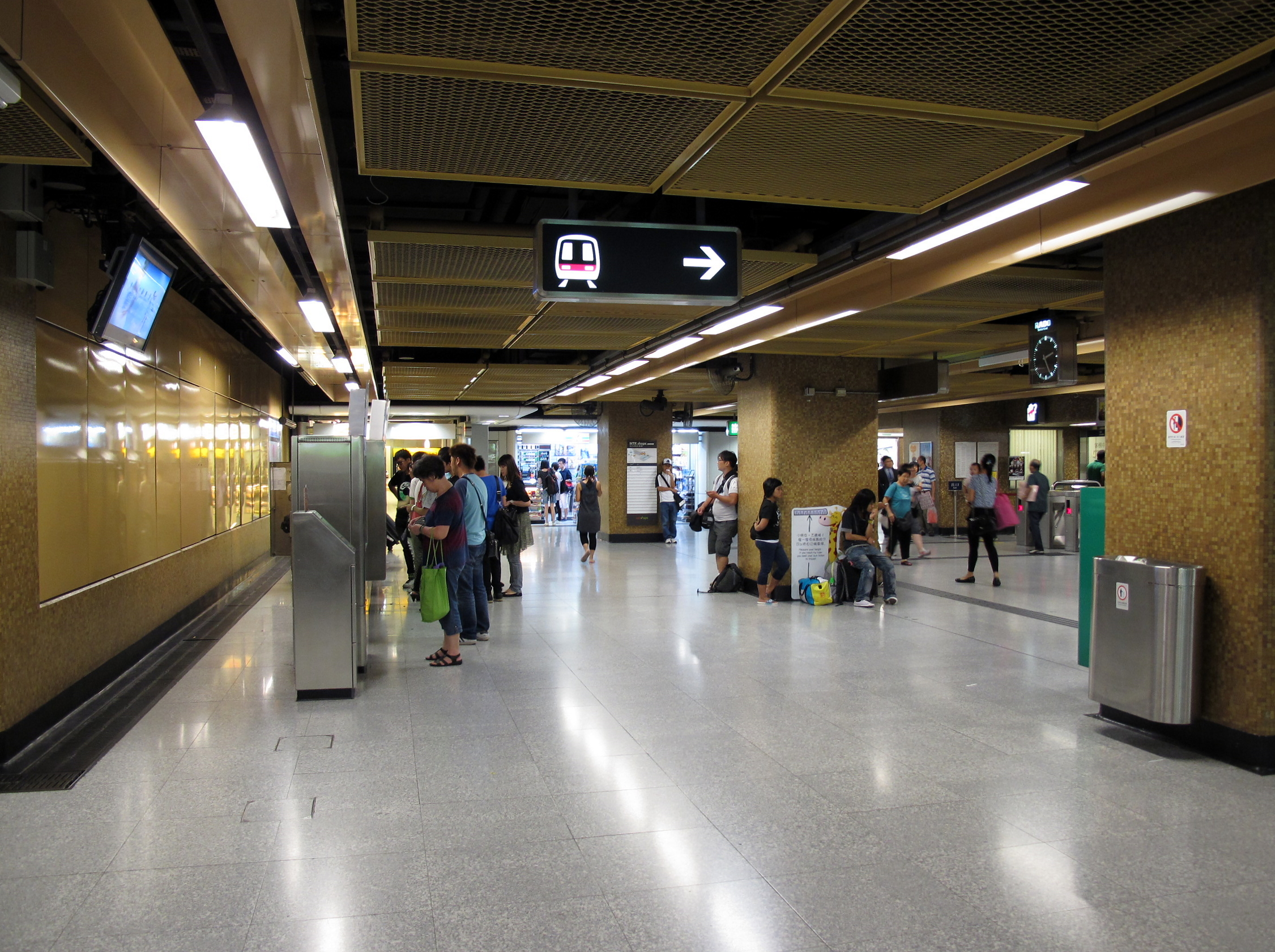 Sheung Wan Station Concourse 上環站德輔道中大堂